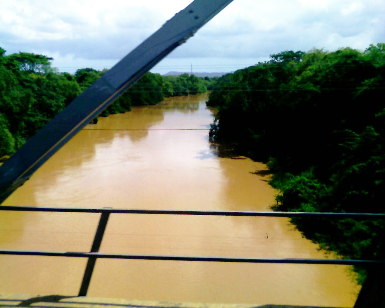 Unare River from Unare Bridge, Venezuela.